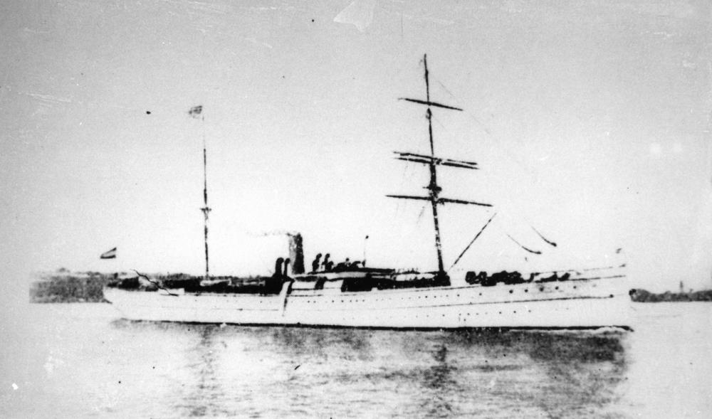 Salier (ship)